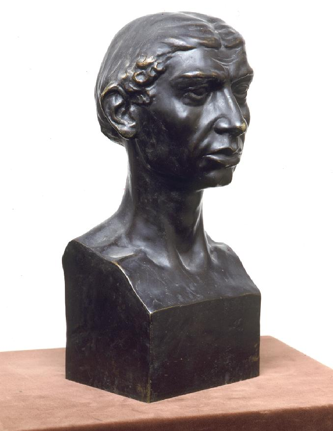 Bust of the Writer Tersánszky (Tersánszky-fej)